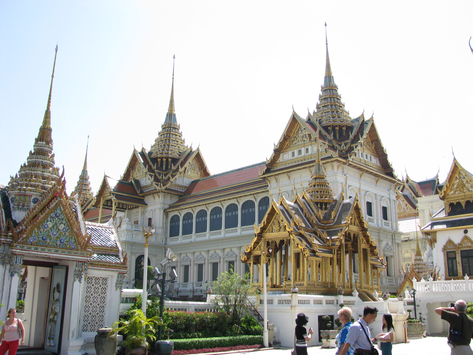 The Chakri Mahaprasat Palace, inside The Grand Palace in Phra Nakhon, Bangkok, Thailand.